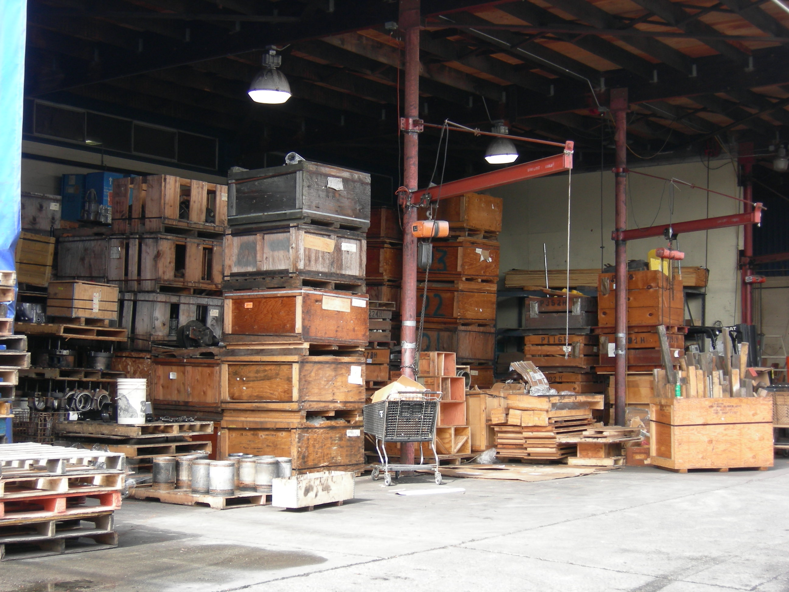 Pallet storage and warehouse, Ballard Avenue (historic district), Ballard, Seattle, Washington. The lower part of the avenue is still part of the working port.